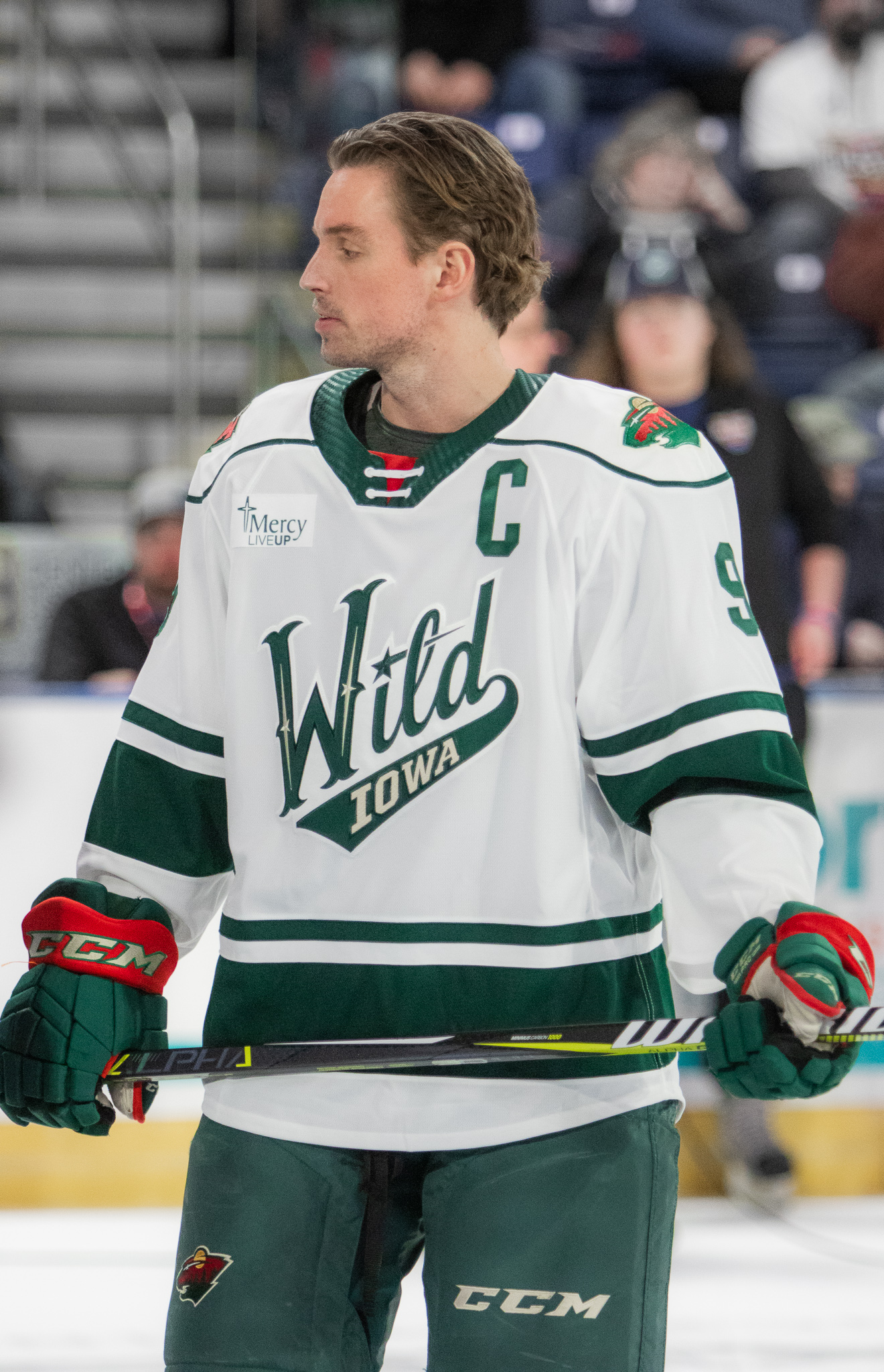 Photo By: Kelly Shea